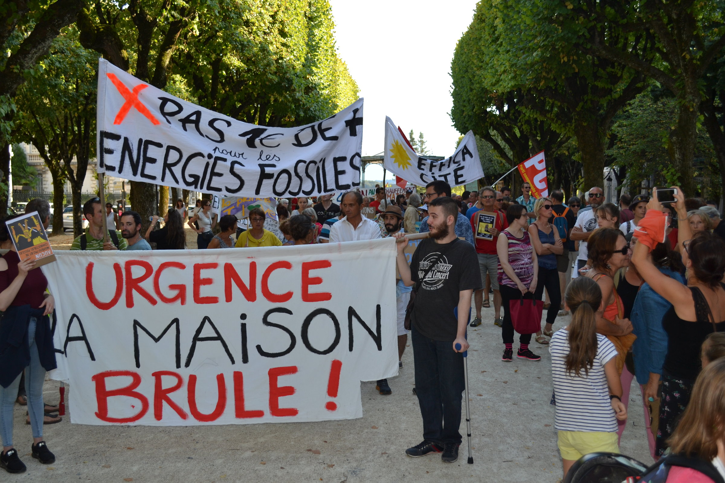 "Rise for climate" protest in Pau on 2018, september 8th.